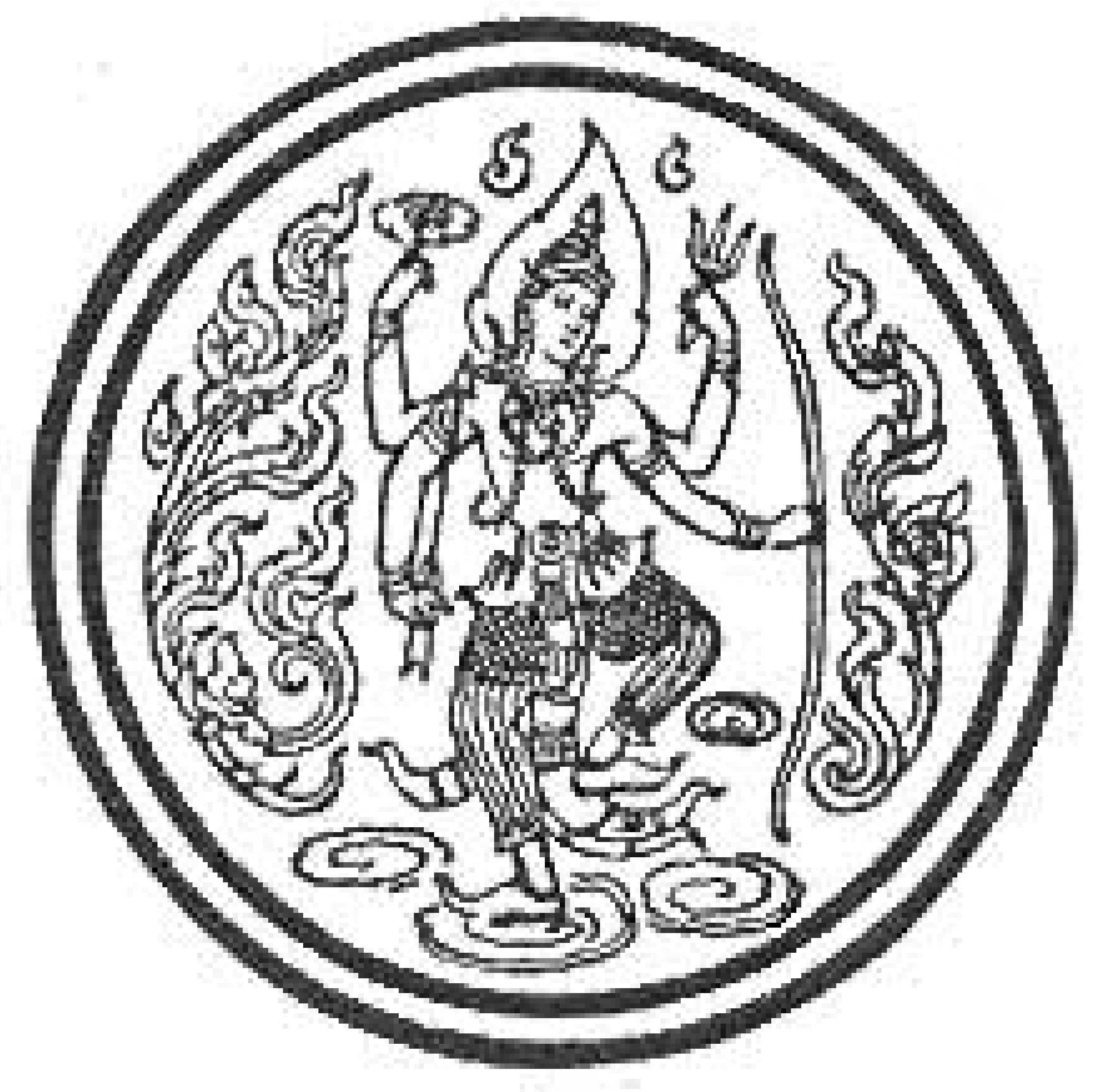 The Seal of Narayana Churning the Ocean of Milk, see detailed information in The Royal Emblems and the Positional Seals by Phraya Anumanratchathon (Yong Sathiankoset).